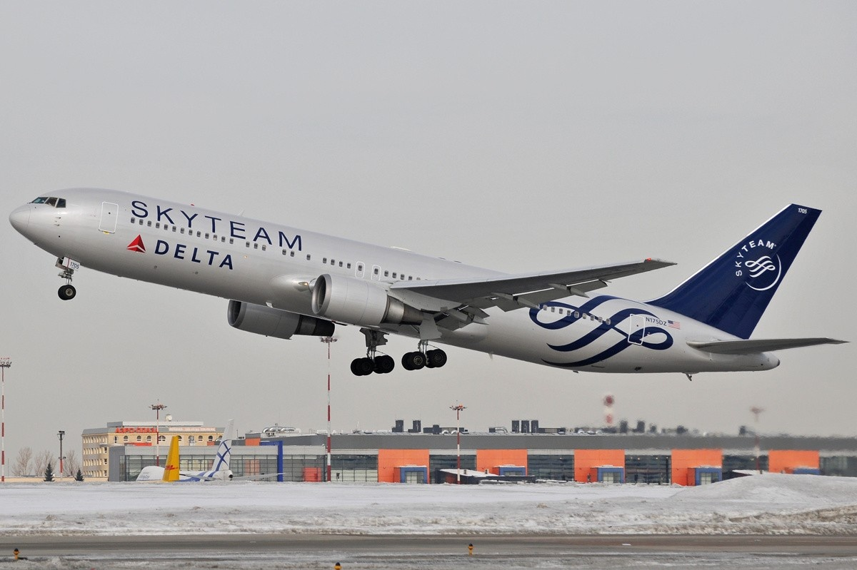 Boeing 767-332ER Delta Air Lines (N175DZ) take-off from Moscow Sheremetyevo Airport